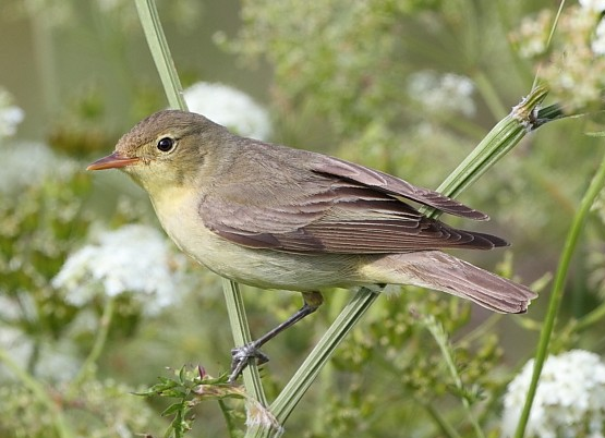 Icterine Warbler Hippolais icterina, Lista, Norway.